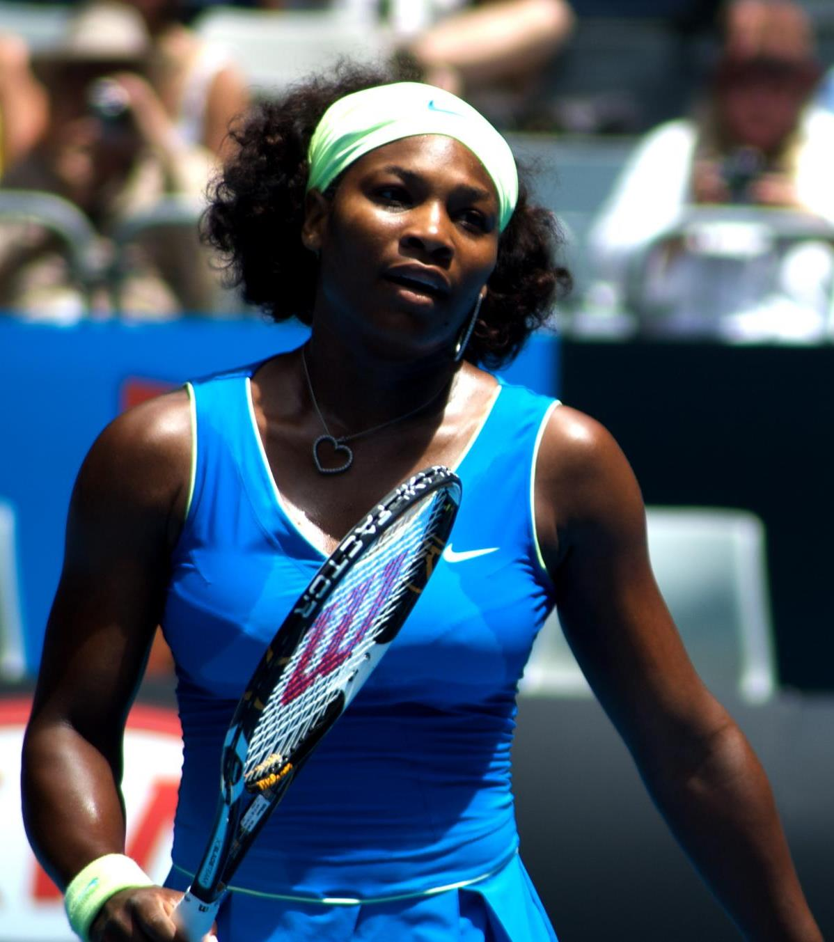 Serena Williams at 2009 Australian Open, Melbourne, Australia.